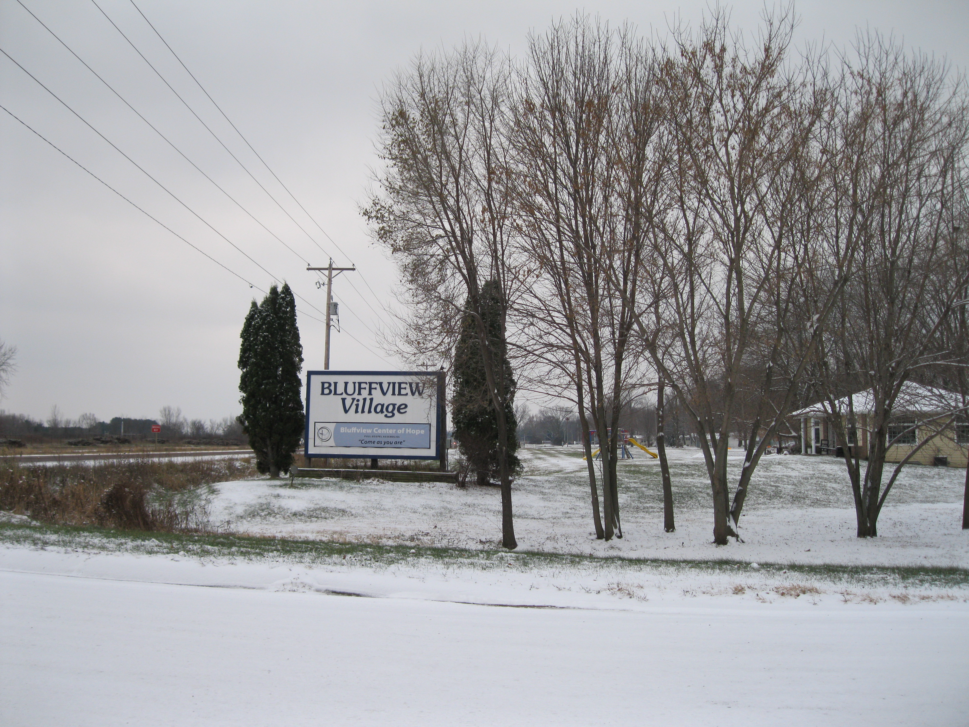 Welcome sign in Bluffview, Wisconsin, an unincorporated community in Sauk County.